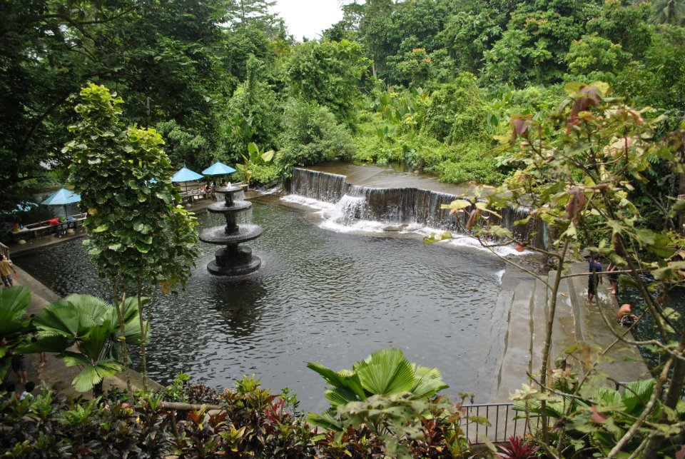 View of Eriberta Resort